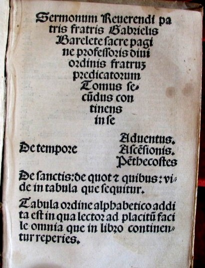 Book of Sermons fro Grabriele da Barletta, from the beggining of XVI centuri